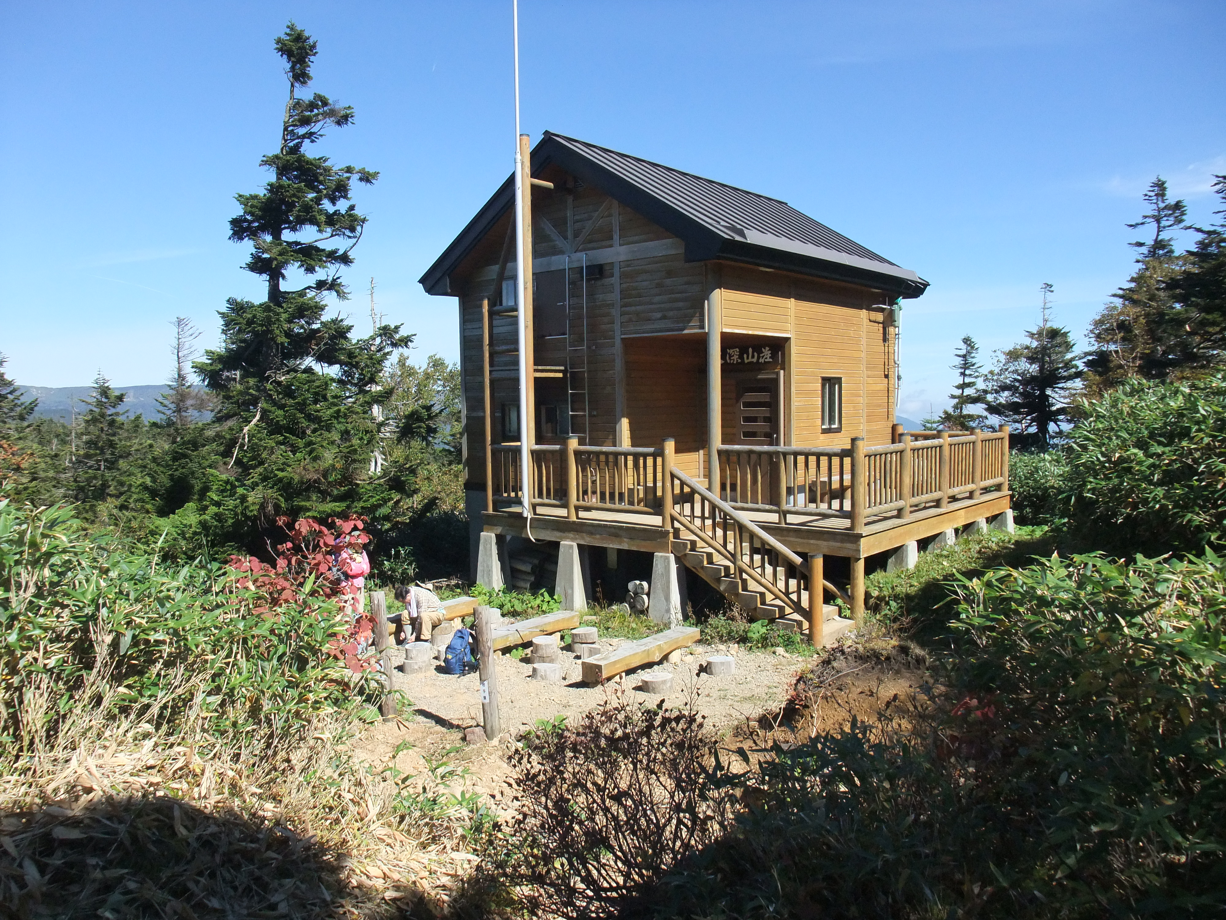 The Obuka Sanso ("Obuka Mountain Hut") on the Ura-Iwate Traverse Trail